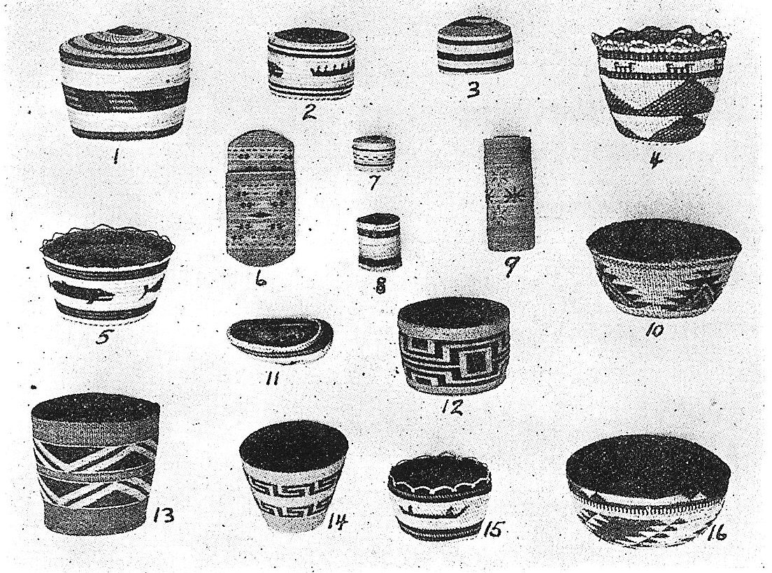 Page 27 of Ye Olde Curiosity Shop (Seattle) 1916 catalog, with illustration depicting a variety of Indian baskets. Includes baskets from the Skokomish (#4), Attu (#6, 9), Klamath (#10), "Thlinket and Hidah" / Tlingit and Haida (#12), Taku, "Thlinket", or Yakutat (#13, 14), and Shasta (#16).